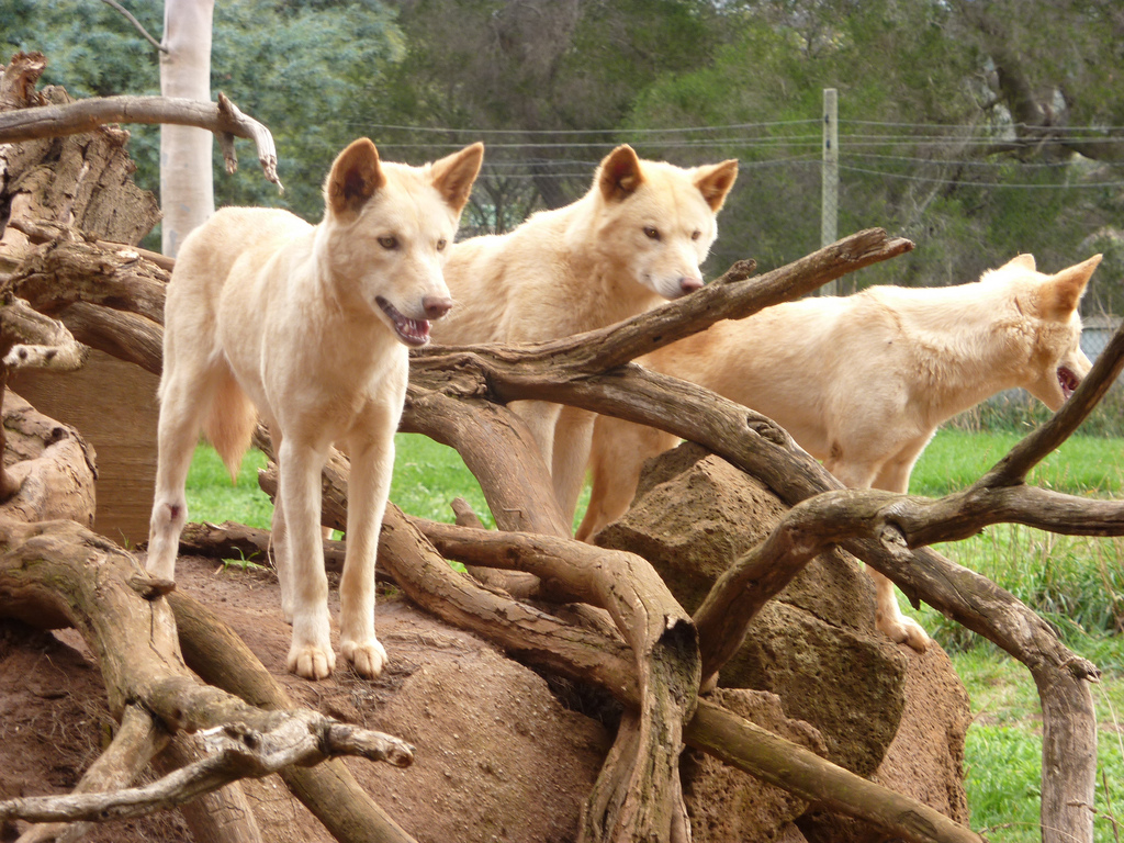 Dingoes at Phillip Island